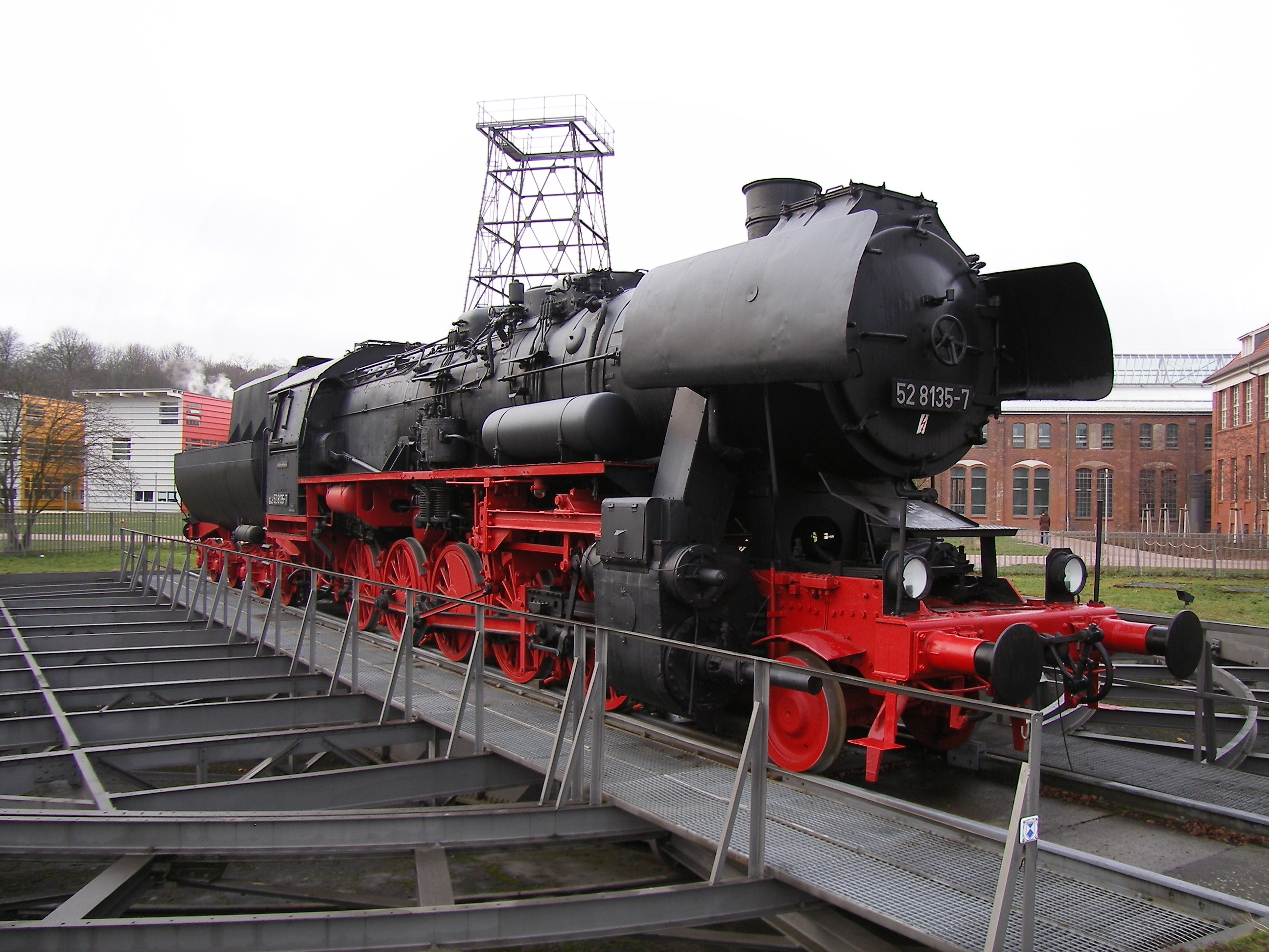 Steam locomotive, rebuilt in 1964 in East Germany, now a technical monument, located in Wildau, Germany.